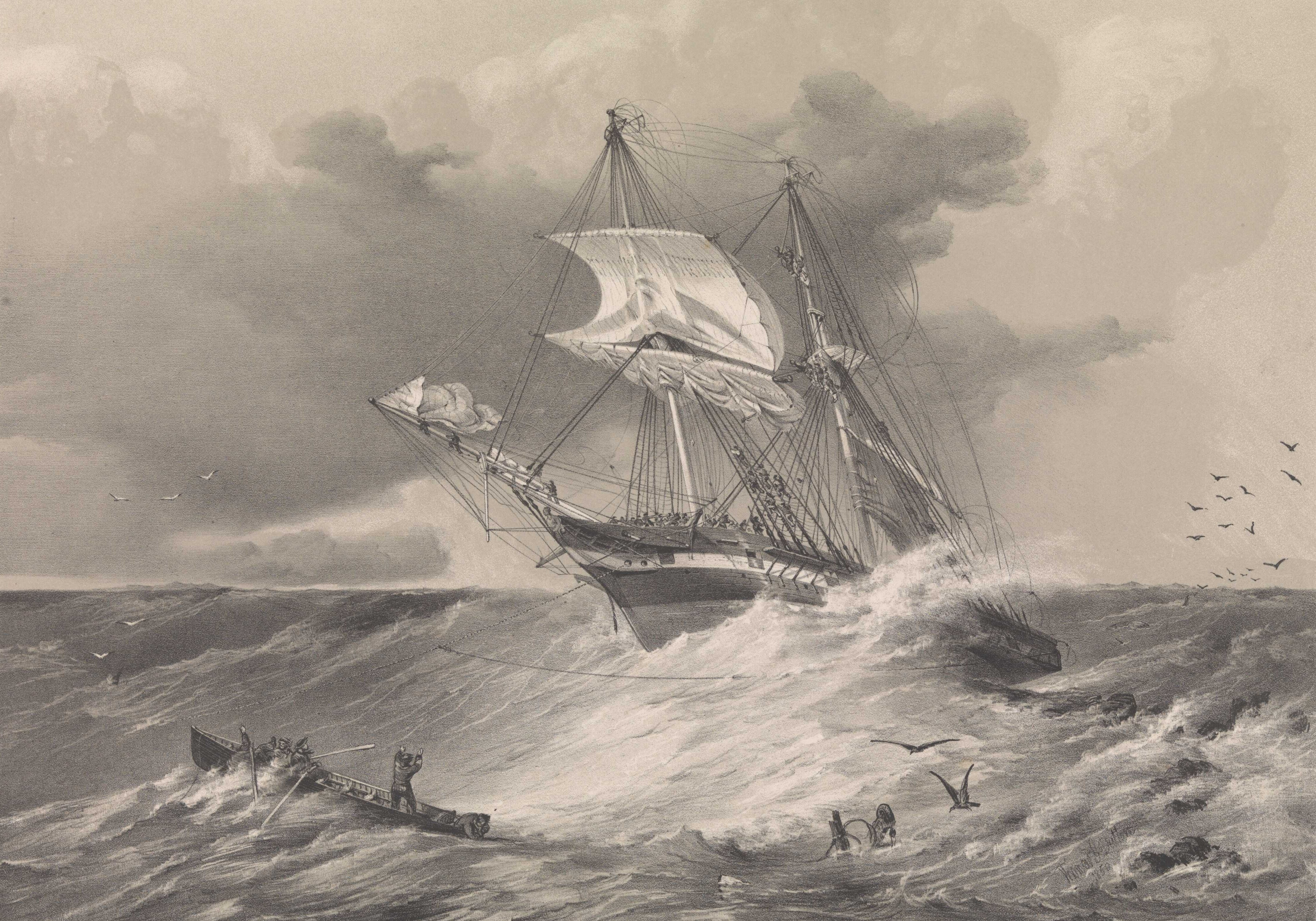 The saving of H.M.S. Sappho off the Coast of Honduras on the 11th Decr 1849 after having been hove off the reef where she struck on the 6th Print The saving of H.M.S. Sappho off the Coast of Honduras on the 11th Decr 1849 after having been hove off the reef where she struck on the 6th